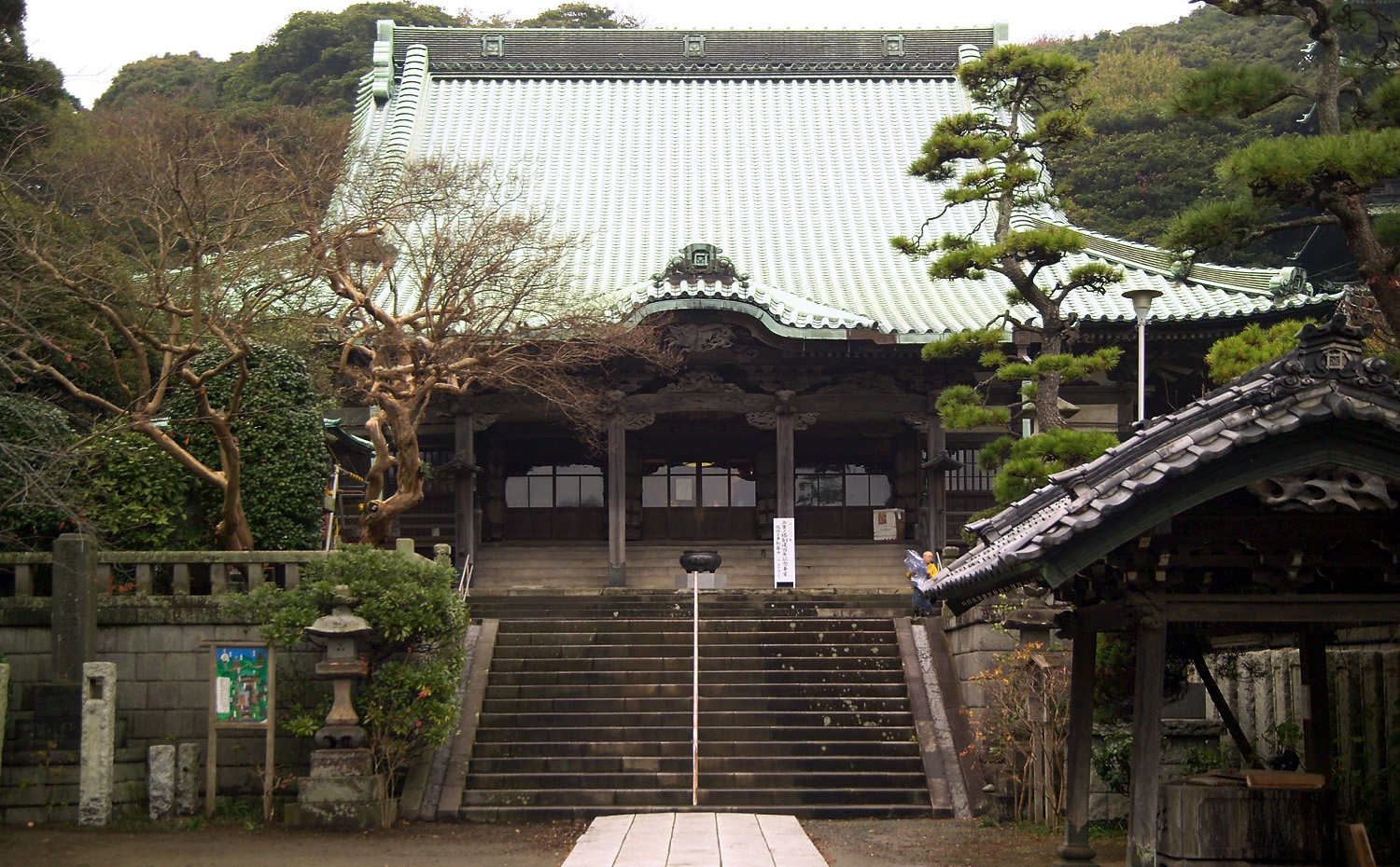 This photograph shows the Hondō at Ryūkō-ji. The temple is in Fujisawa, Kanagawa Prefecture, Japan